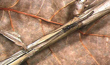 female Tetragnatha chauliodus from Okinawa.